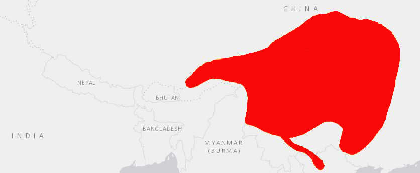 Tragopan temminckii